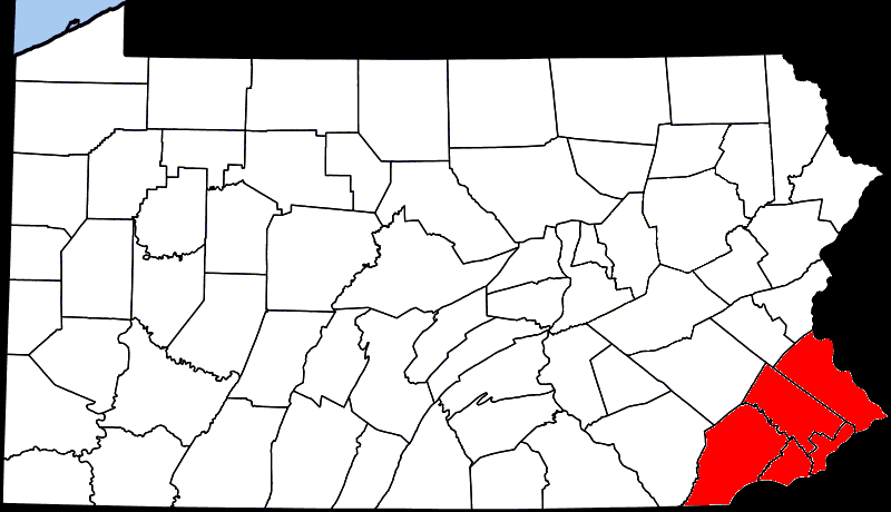 altered version of (Public domain map courtesy of The General Libraries, The University of Texas at Austin, modified to show counties relevant to article. Released under GFDL. See Wikipedia:U.S. county maps.)